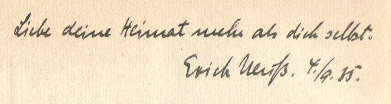 Dedication of German historican and author Erich Neuß (1899–1982)